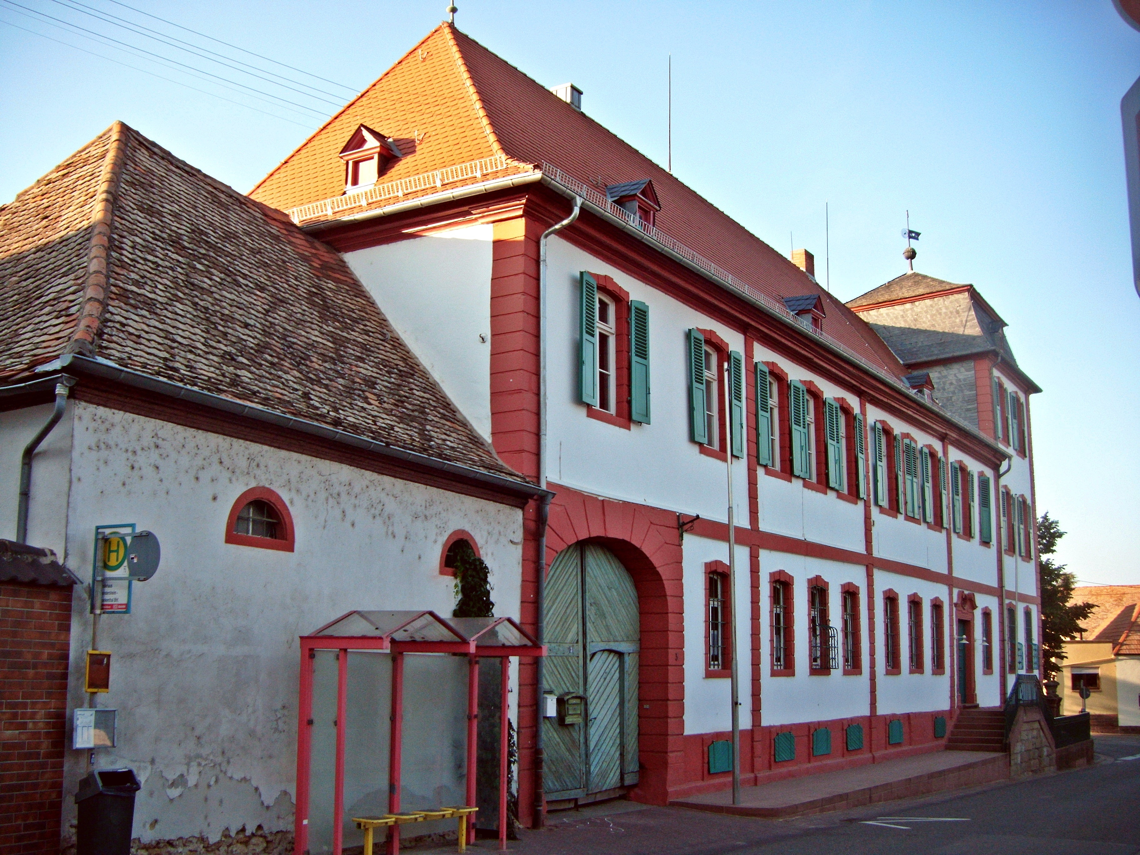 Schloss Kleinniedesheim